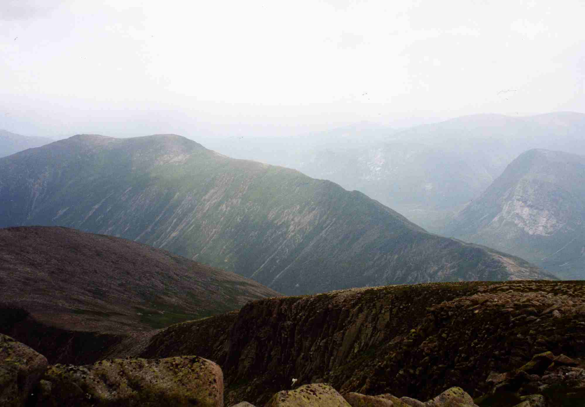 Personal photograph taken by Mick Knapton